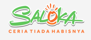 Saloka Park Logo